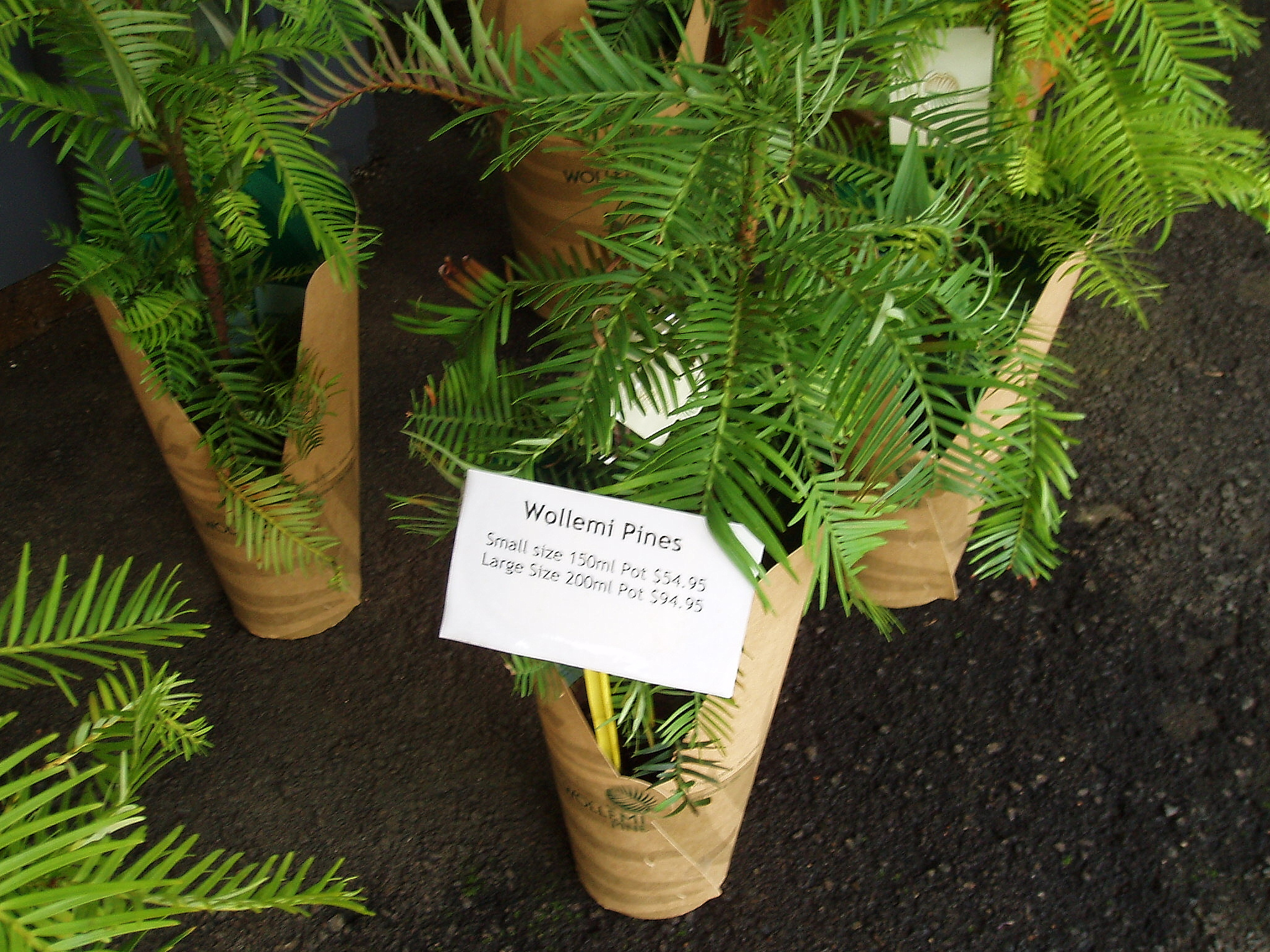 The Wollemi Pine (Wollemia nobilis) is one of the world's oldest and rarest plants dating back to the time of the dinosaurs. With less than 100 adult trees known to exist in the wild, the Wollemi Pine is now the focus of extensive research to safeguard its survival. When discovered. 1994 Where discovered. 200km west of Sydney in a rainforest gorge within the 500,000 hectare Wollemi National Park in the Blue Mountains Discovered by. David Noble, a NSW National Parks and Wildlife Officer and avid bushwalker. Age. The Wollemi Pine belongs to the 200 million year old Araucariaceae family Oldest known fossil. 90 million years Wild population. Less than 100 mature trees